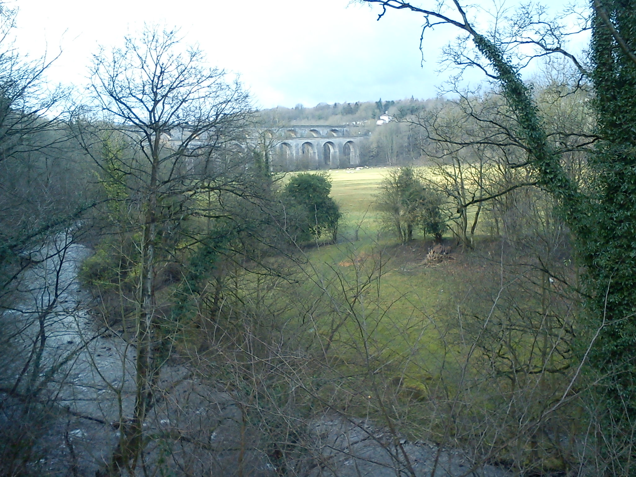 The River Ceiriog taken from Chirk Bank with Chirk Aqueduct and viaduct in the distance.